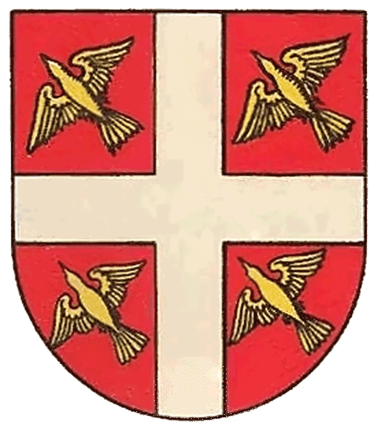 Coat of Altlerchenfeld, Vienna